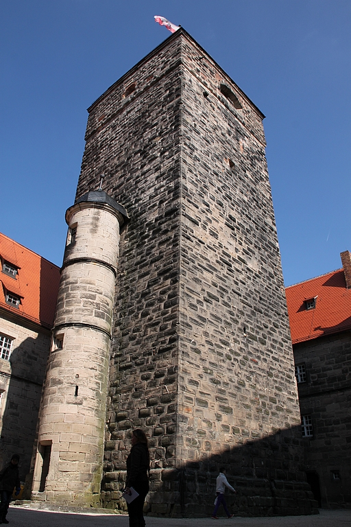 Kronach, Fortress Rosenberg